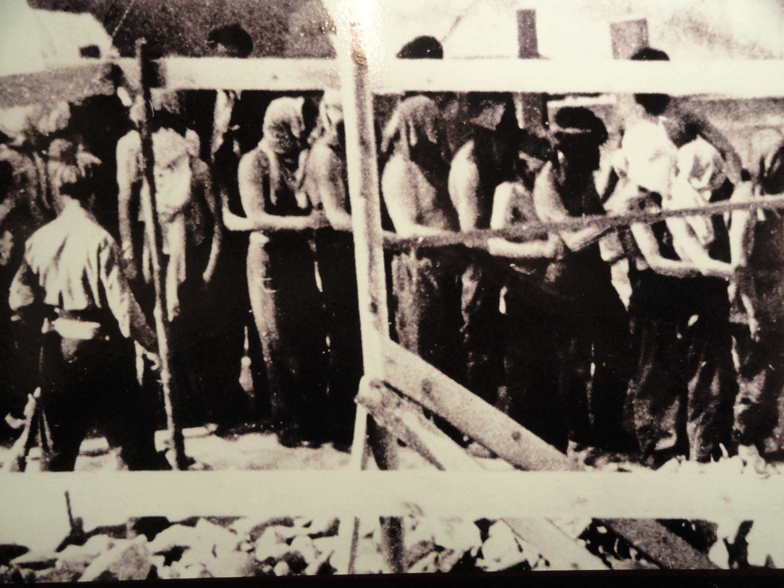 Massacre of Paneriai near Vilnius (Lituania) where 100,000 Jews were shot by the nazis in 1941